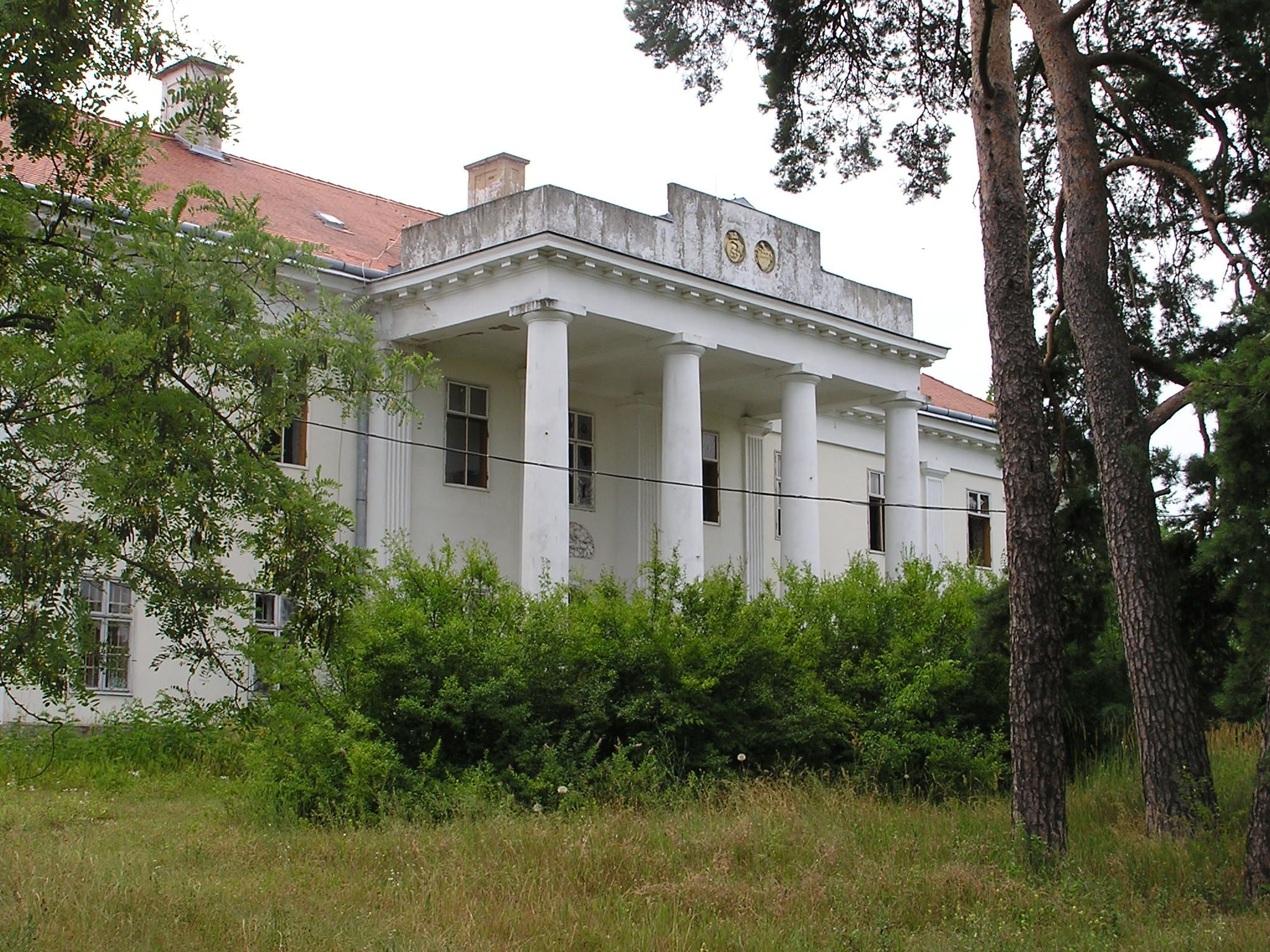 Eördögh Mansion, Nyírábrány, Hungary